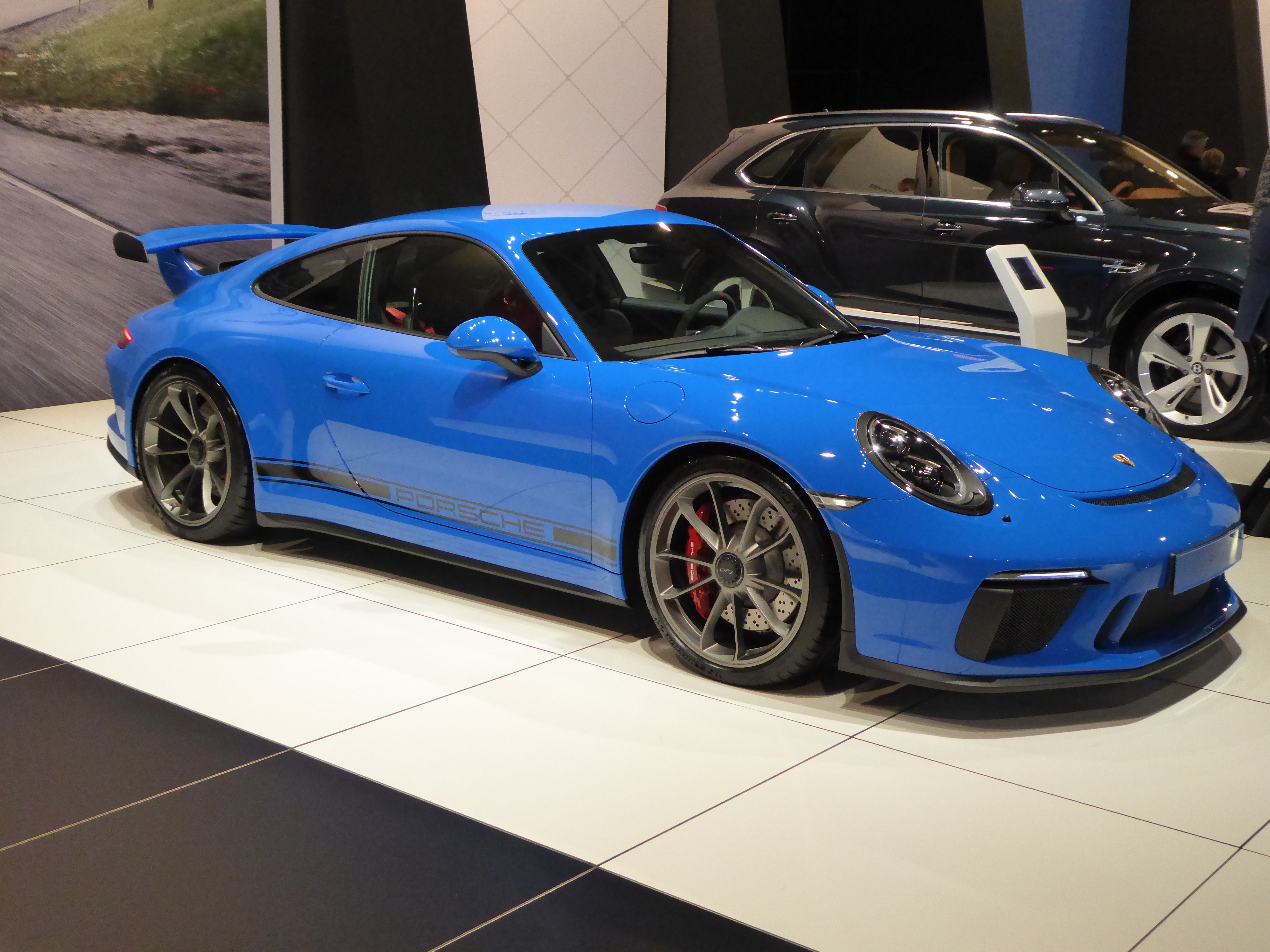 porsche 911 at European Motor Show Brussels 2018